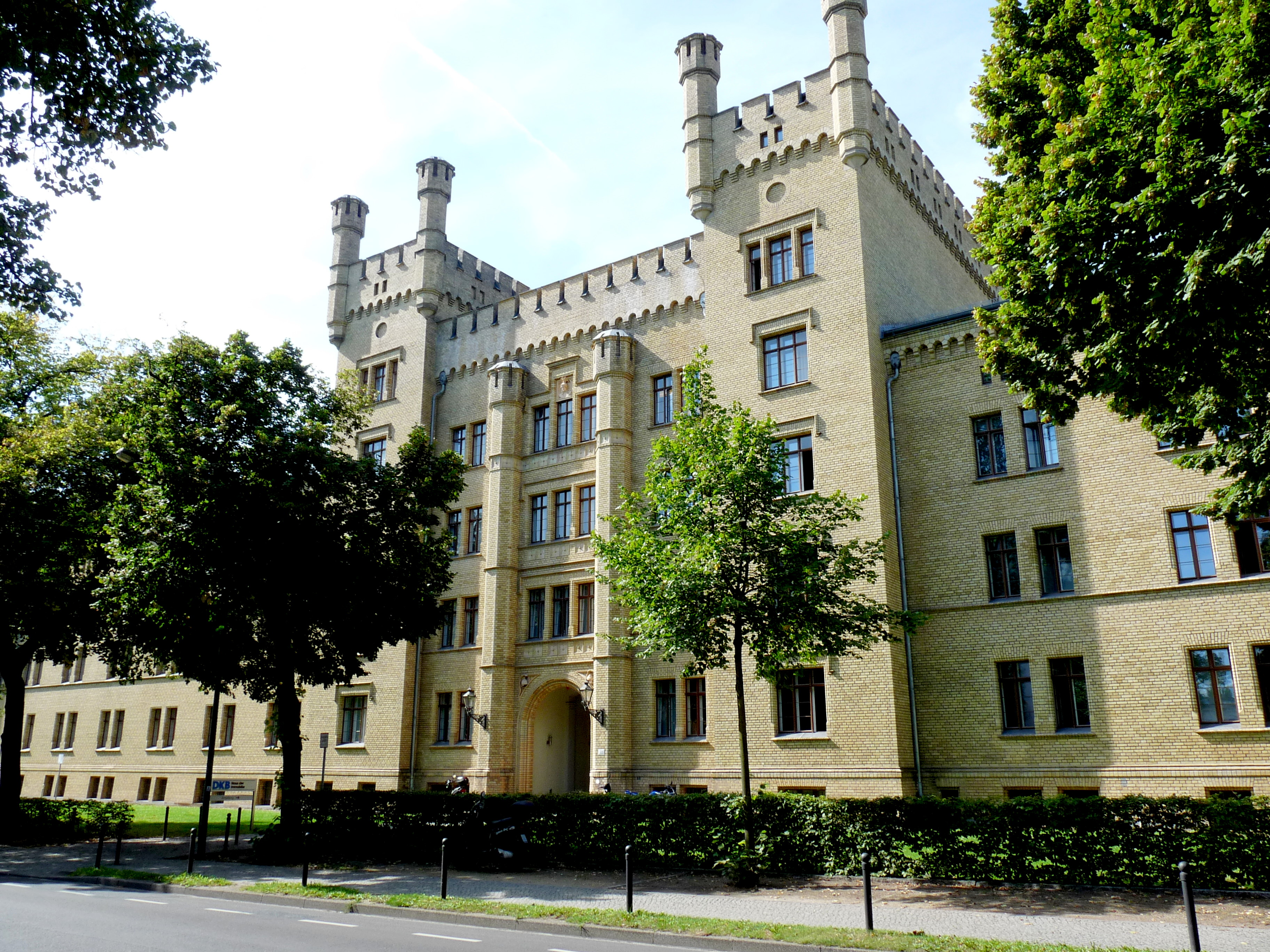 Entry of the casern of the 3. Garde-Ulanen-Regiments